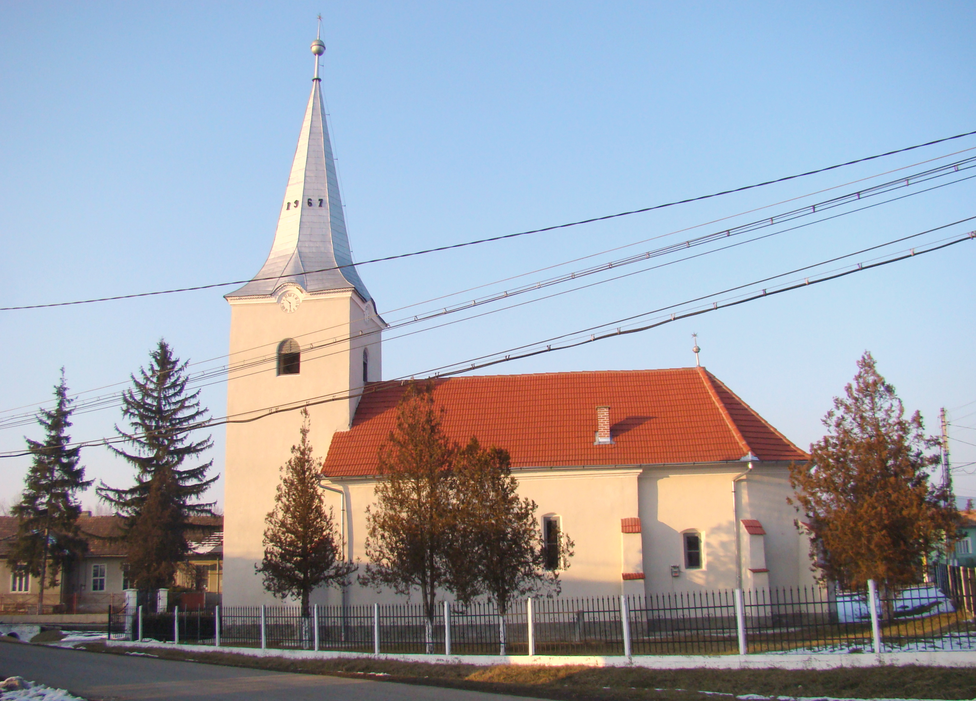 Reformed church in Cuci, Mureş county, Romania